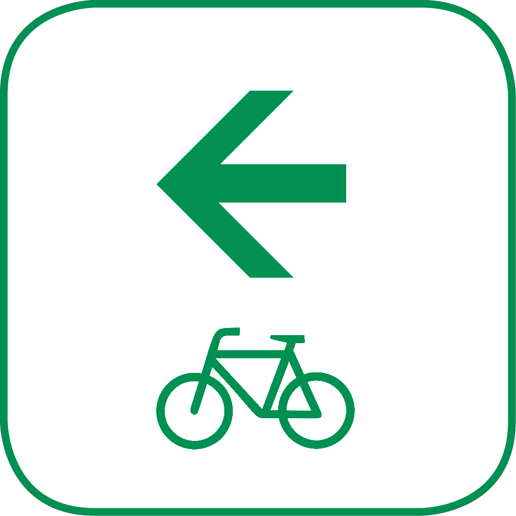 Diagram of road signs of Luxembourg